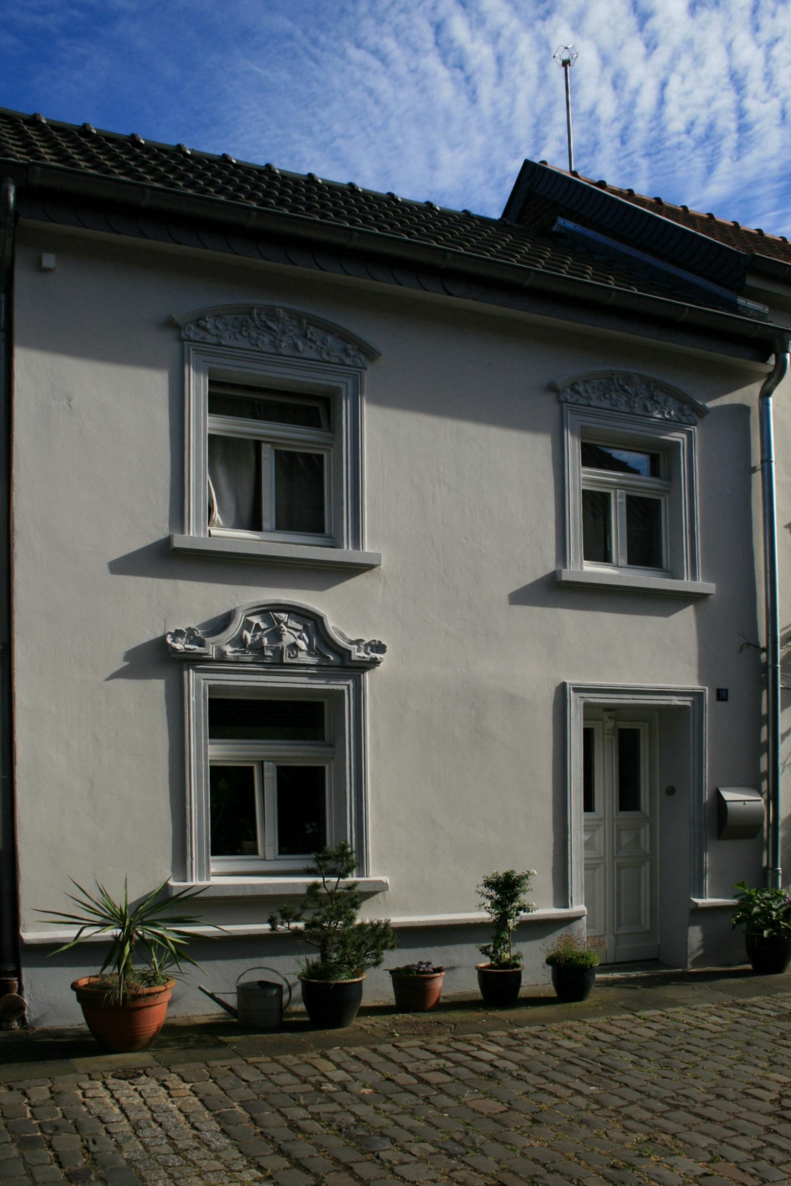 Cultural heritage monument No. St 017 in Mönchengladbach